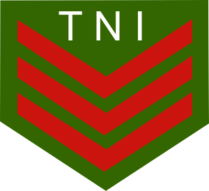 Chief Corporal rank insignia that used on daily uniforms of Indonesian Army